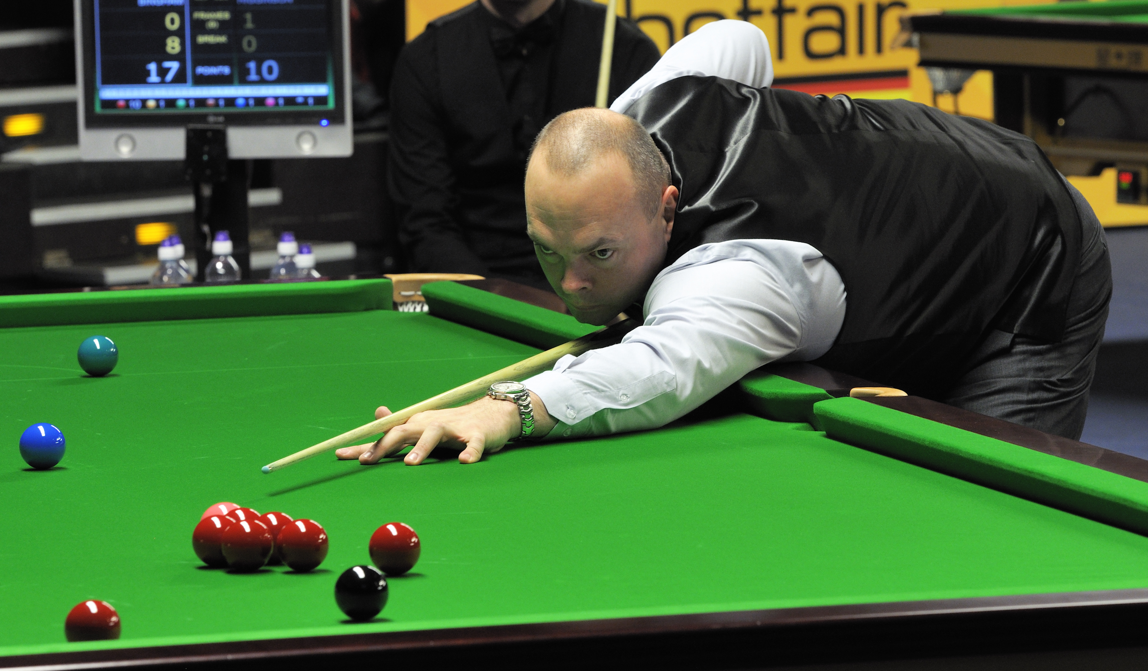 Picture taken in Berlin during the Snooker German Masters in 2013. Stuart Bingham.